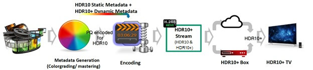 Metadata Workflow example diagram.